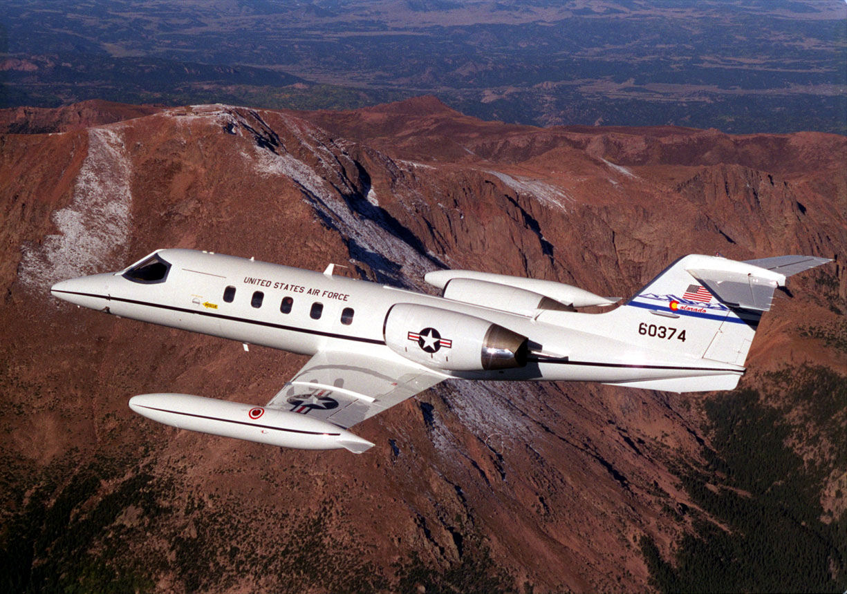 200th Airlift Squadron - C-21A Learjet 86-0374